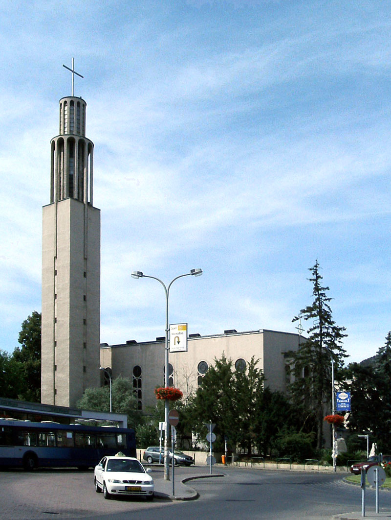 The Franciscan Church at Pasaréti tér — Modern movement church in Budapest, Hungary. Designed 1931-34 by Gyula Rimanóczy.